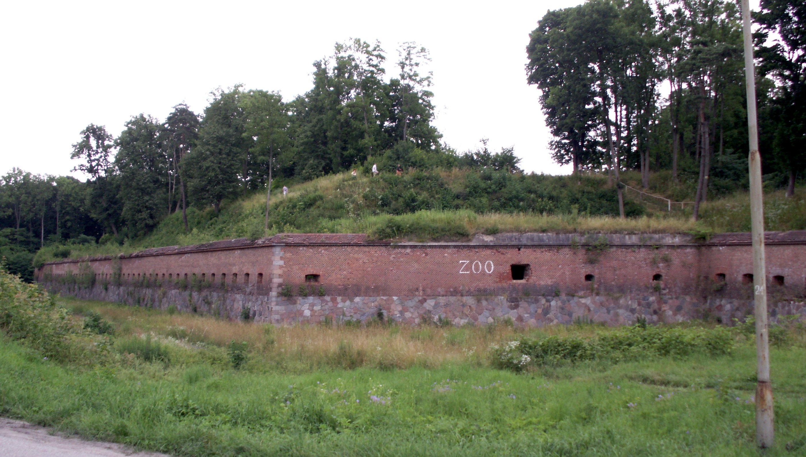 Fort Boyen, Poland